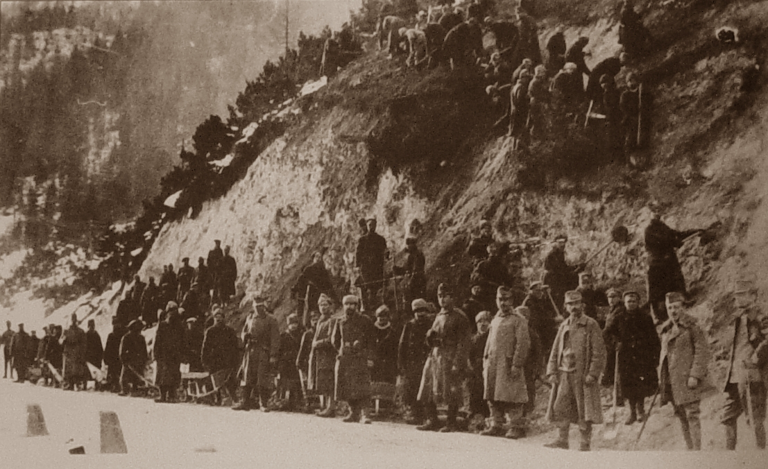 Russian POWs building the road over the Vrsic pass